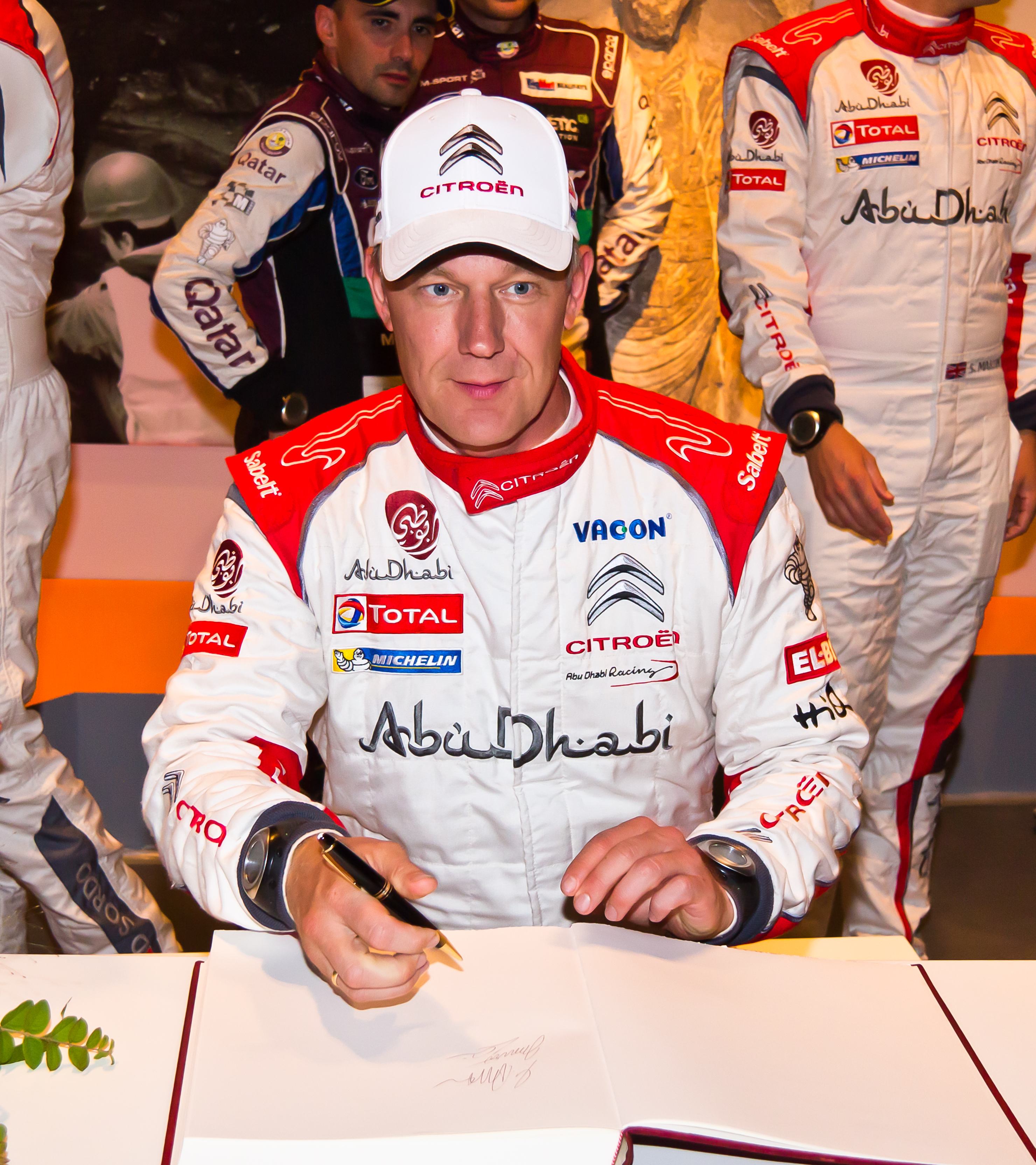 ADAC Rallye Deutschland 2013 - Welcome by the City of Cologne. Jarmo Lehtinen signs the guestbook of Cologne